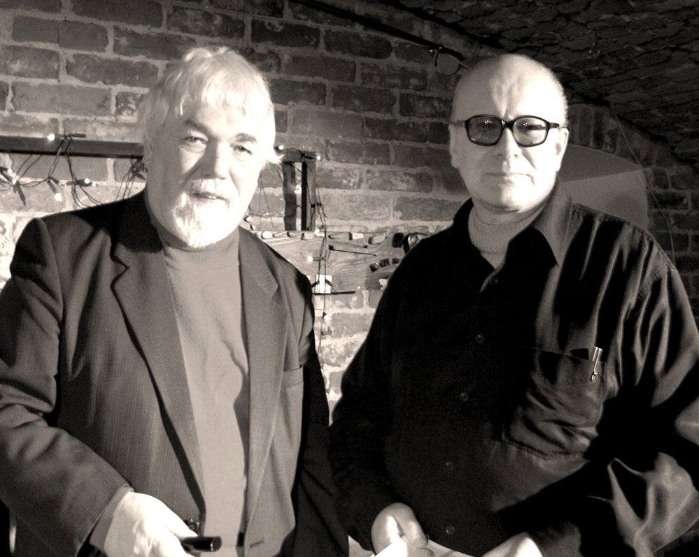 Ilya Fonyakov and Vladimir Lukianov. Saint Petersburg, Russia, 2006